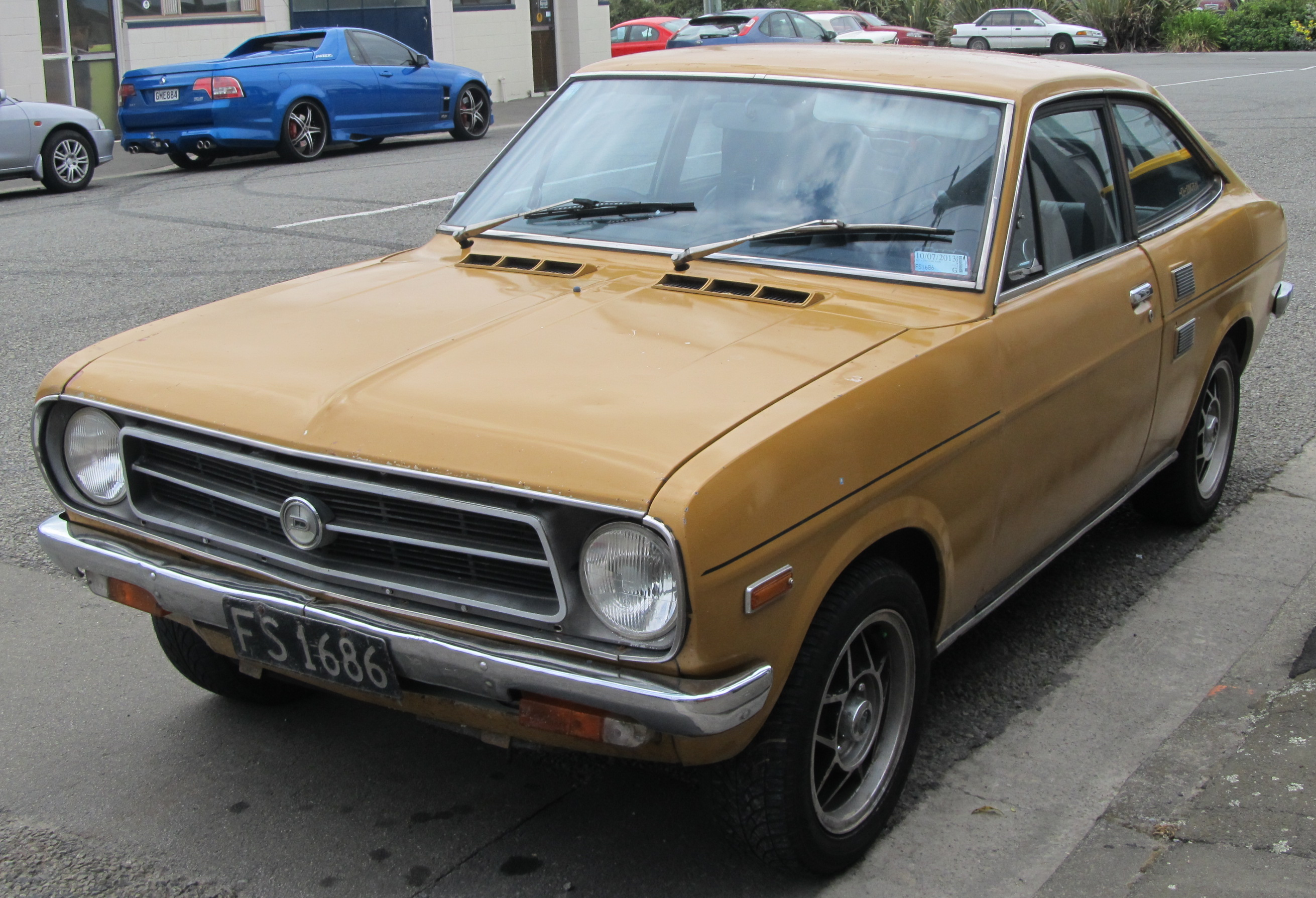 FS1686 I was really pleased to find this, as I don't think I've ever seen another 1200 coupe! As you will soon see this industrial area was filled with old cars - one rarity is visible in the background already... Were these special order or readily available from dealers like the 1200 saloon and estate? The wheels are aftermarket.